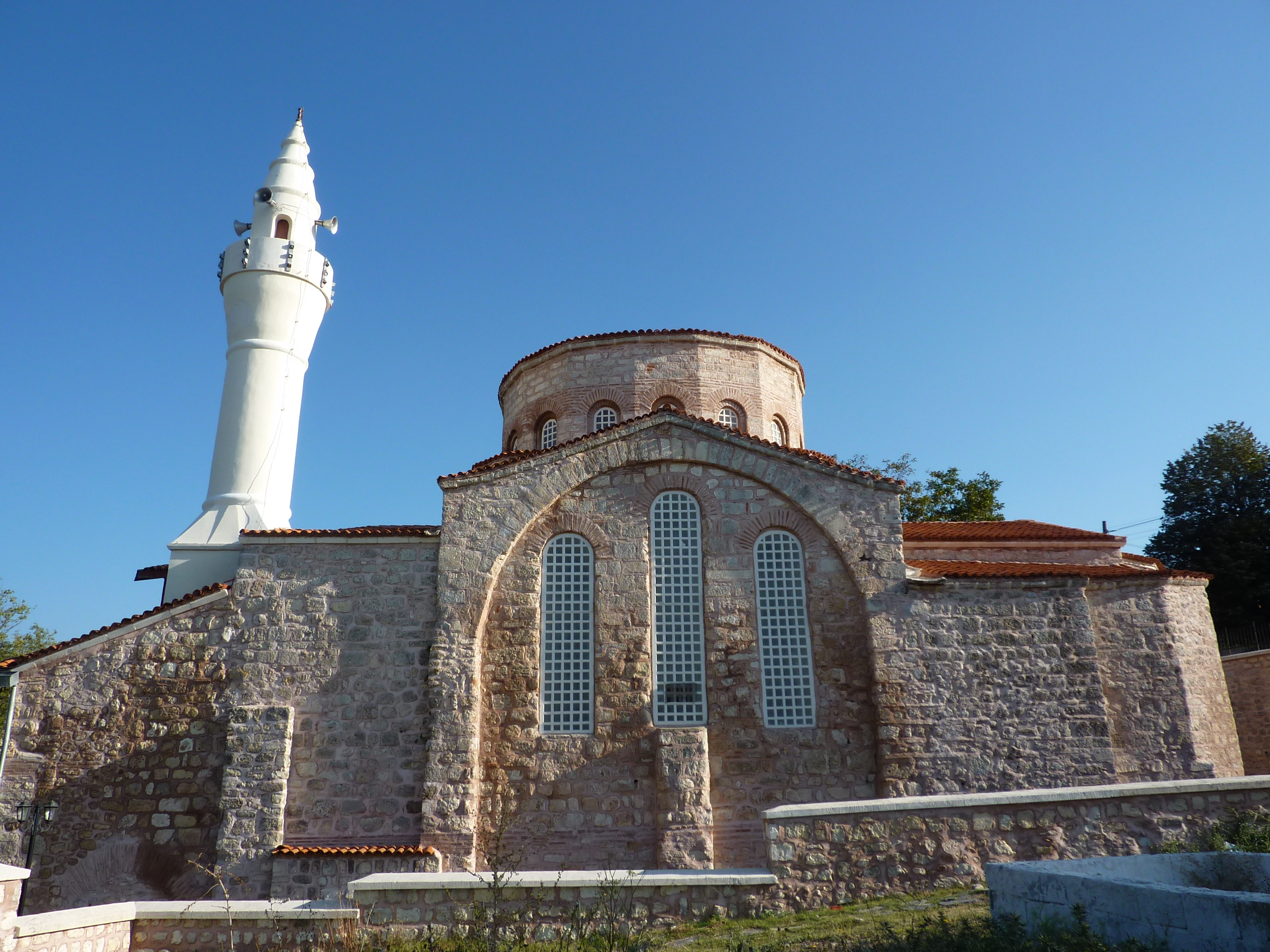 Former Hagia Sophia Church in Vize, Turkey. Presently, Suleyman Pasha's Mosque.